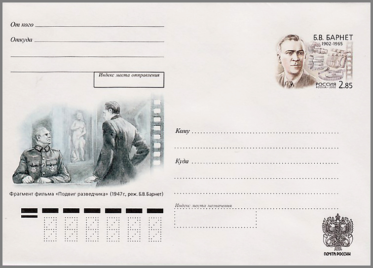 Russia, 2002. Envelope with commemorative stamp (EWCS) № 114. 100 years since the birth of Boris Barnet, the actor and filmmaker. Painter A. Yudin.